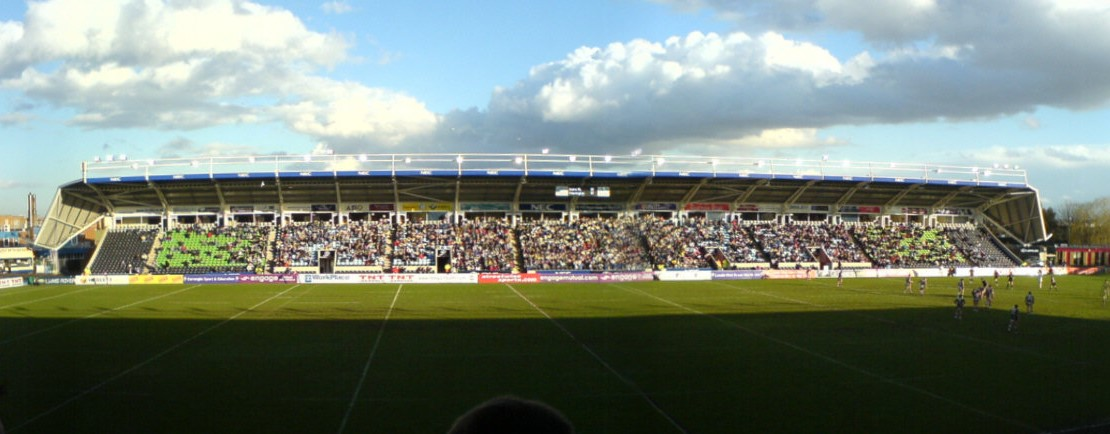 The Etihad Stand, Twickenham Stoop, London, England